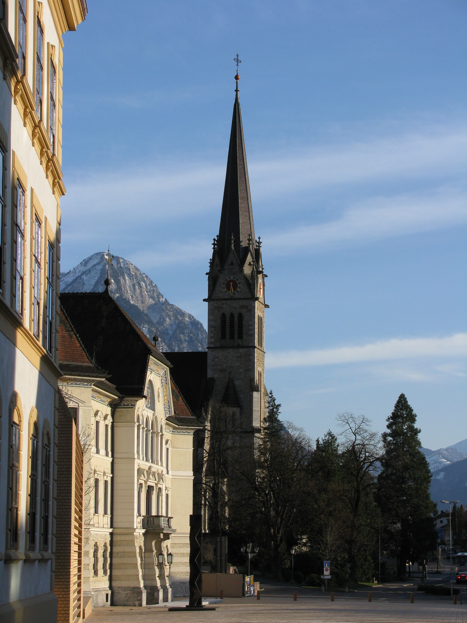 The Cathedral St. Florin in Vaduz, Liechtenstein